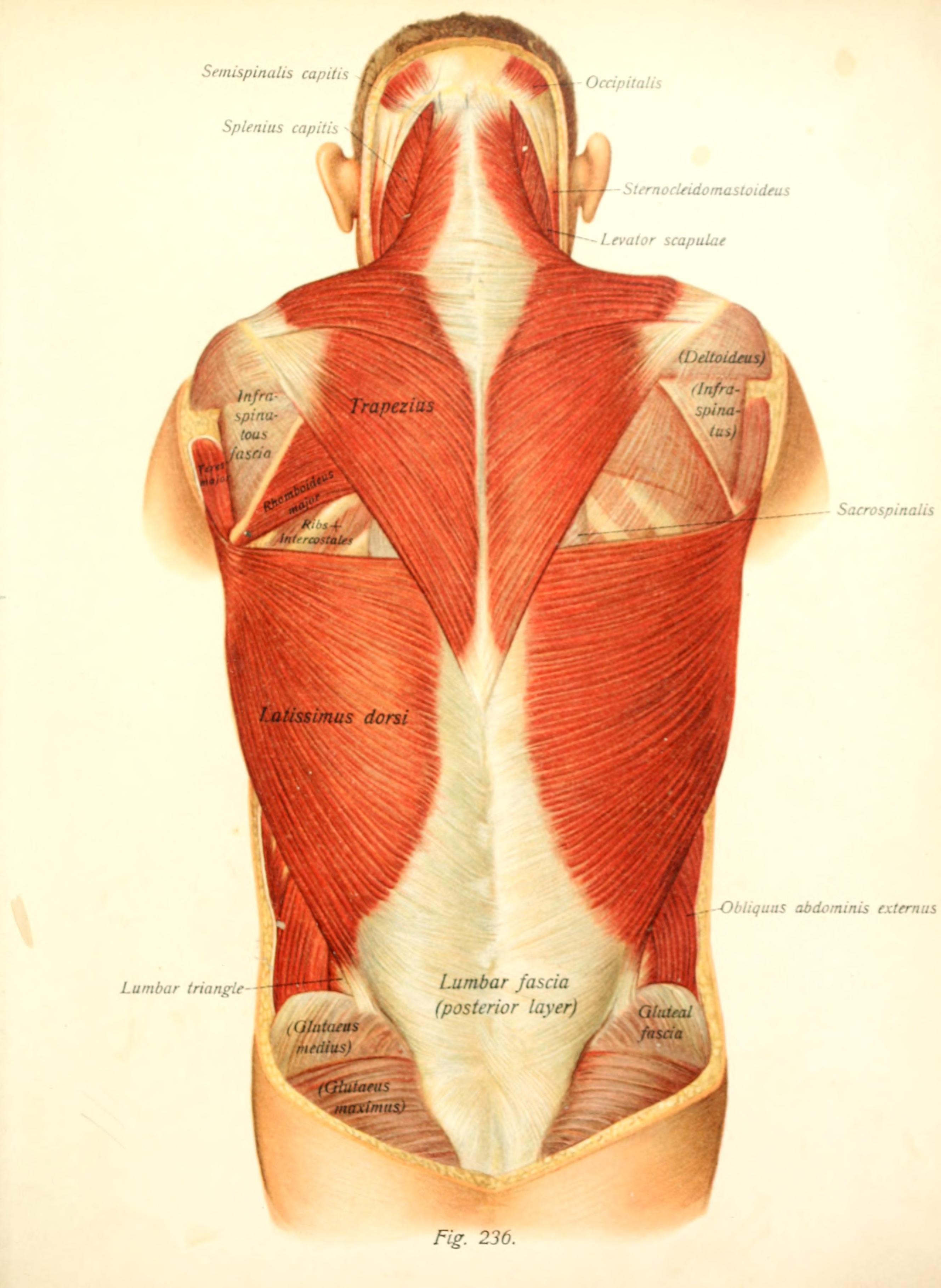 Title: Atlas and text-book of human anatomy Year: 1914- (1910s) Authors: Sobotta, Johannes, 1869-1945; McMurrich, J. Playfair (James Playfair), 1859-1939 Subjects: Anatomy -- Atlases Publisher: Philadelphia, Saunders Text Appearing Before Image: Scmispinalis ca/nii s Splenius capitis Occipitalis j ^ternocUidomasioideus I.nator scapulae Text Appearing After Image: Lumbar triangle Lumbar fascia (posterior layer) \ — Sacrospinalis itquiis abdominis extemus